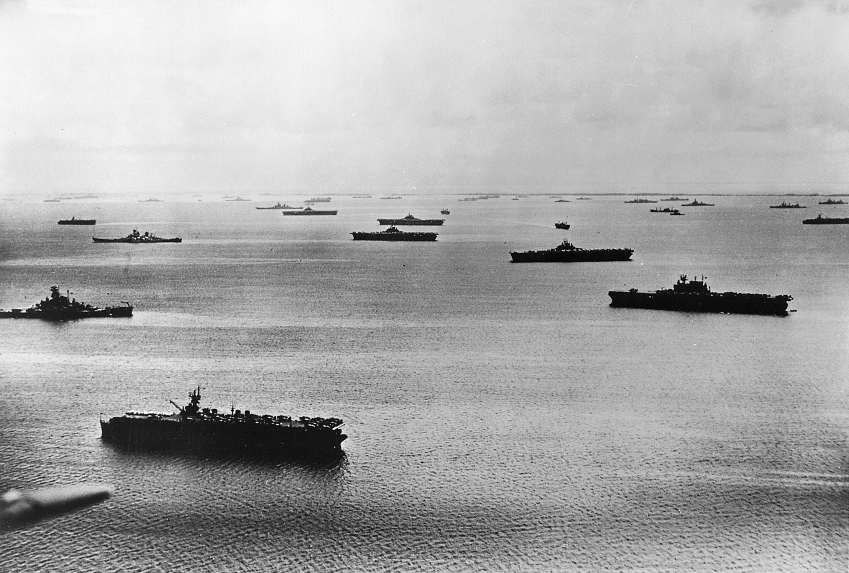 The U.S. fleet at Majuro Atoll in 1944. Visible (among many other ships) are three Independence-class light carriers, four Essex-class carriers, USS Enterprise (CV-6, right front), a South Dakota-class battleship, and two Iowa-class battleships.